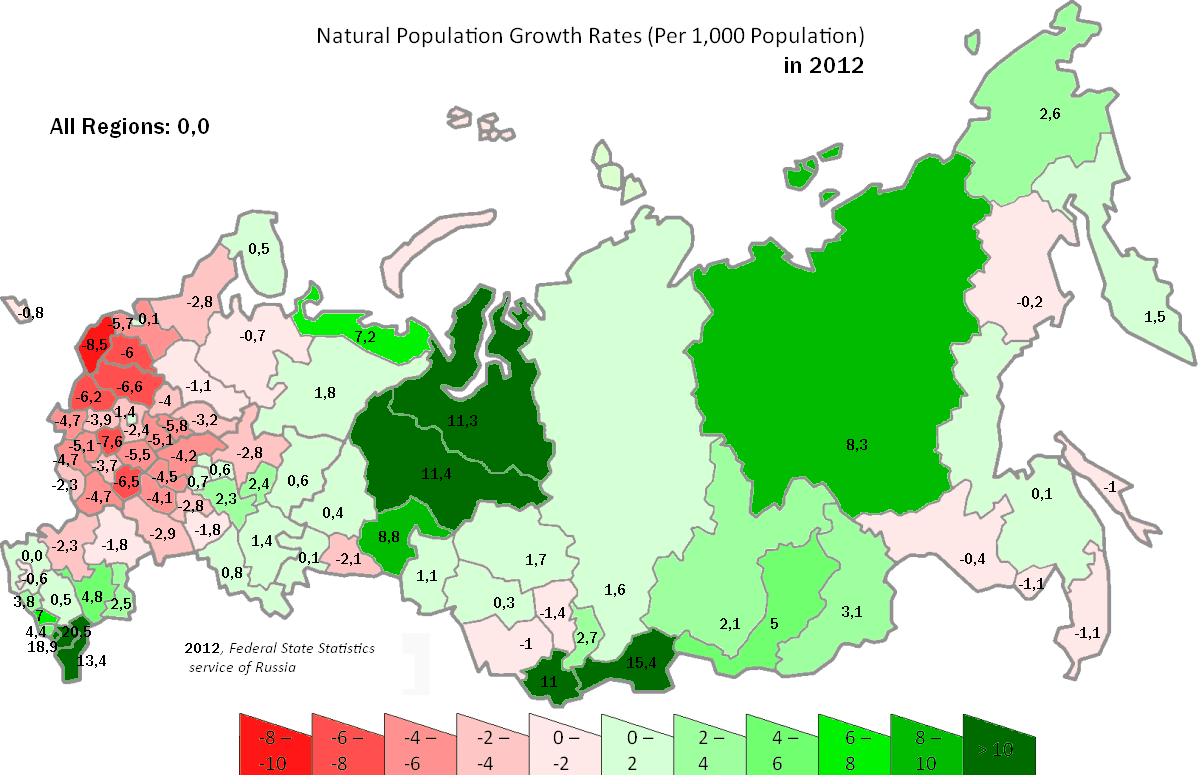 Natural population growth rates by region in 2012.